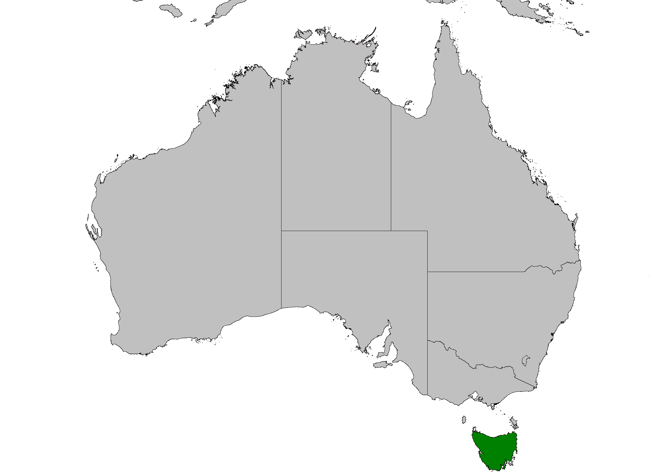 range map of eastern quoll (Dasyurus viverrinus)